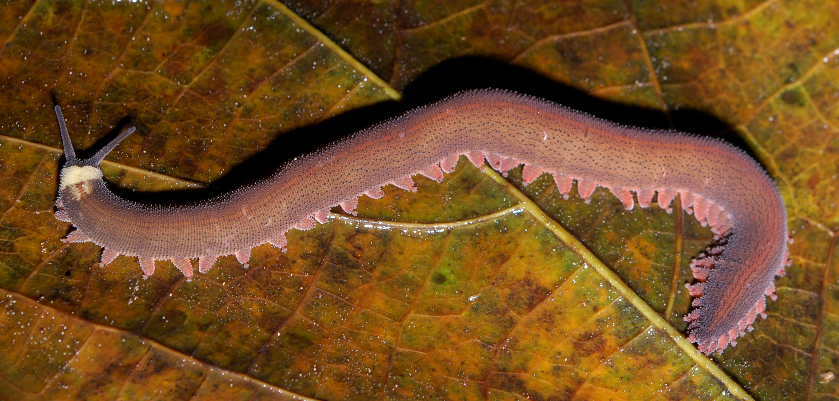 An Oroperipatus species found in Yasuni National Park, Ecuador